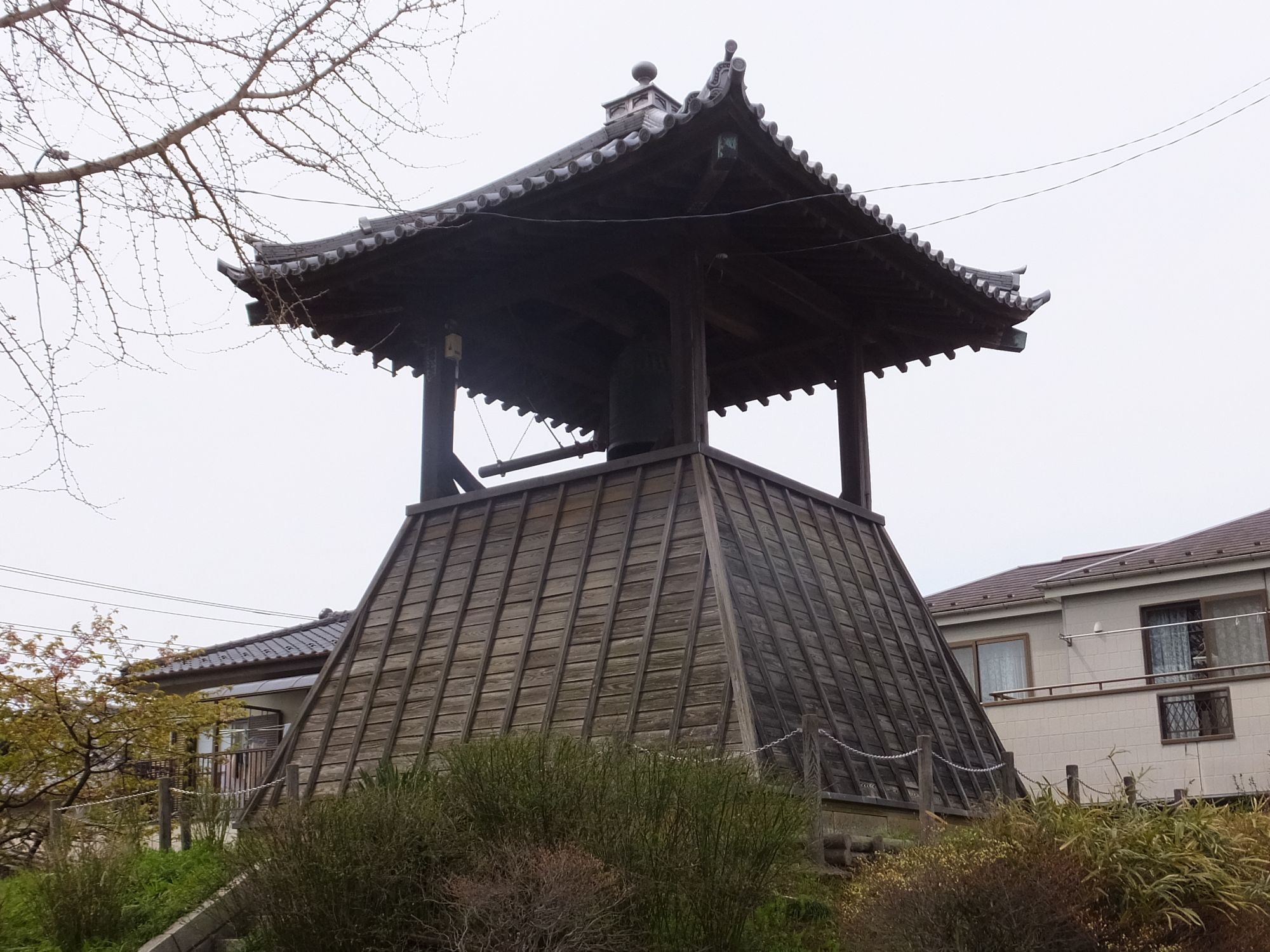 'Toki no Kane' (Bell of Time) bell tower in Iwatsuki-ku, Saitama